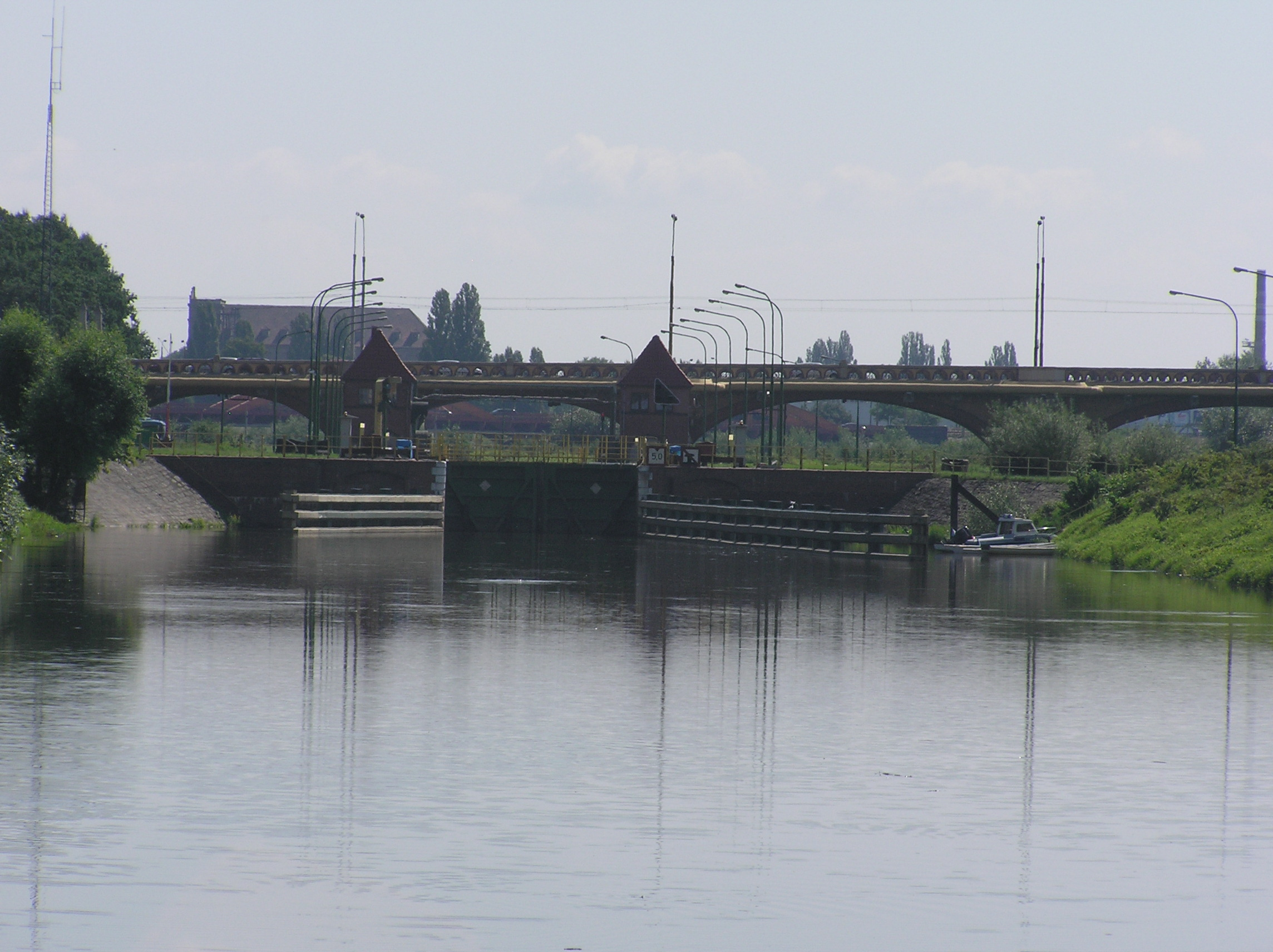 Wrocław, Oder River, Różanka Canal, Różanka Lock (and Osobowicki Bridge)